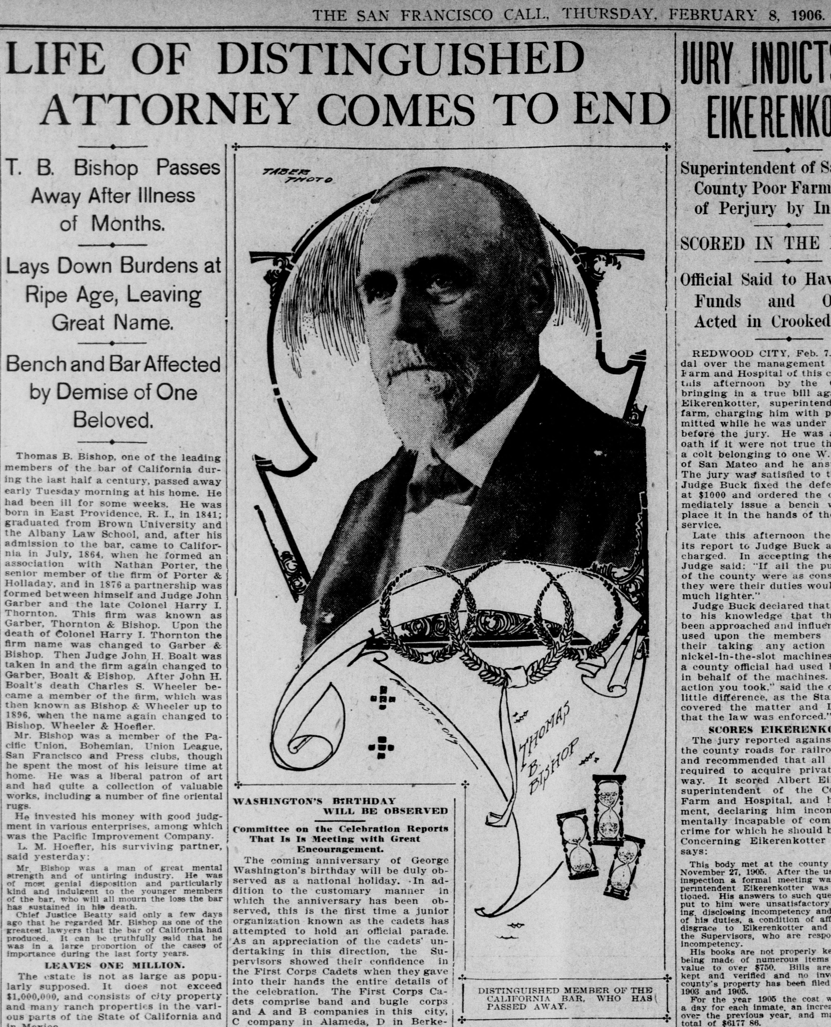 The San Francisco Call newspaper front page, thursday, feb 8 1906, featuring the death of SF lawyer Thomas B. Bishop